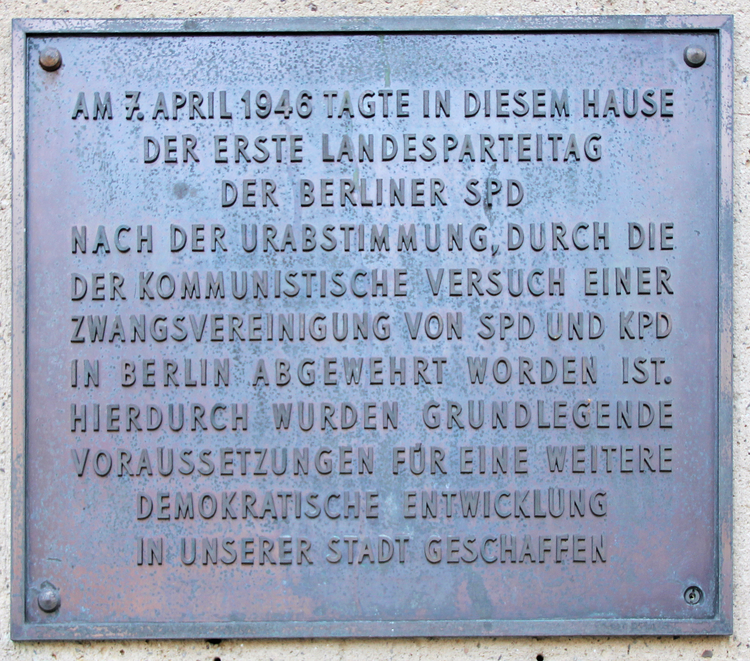 Memorial plaque, Sozialdemokratische Partei Deutschlands, Wilskistraße 78, Berlin-Zehlendorf, Germany